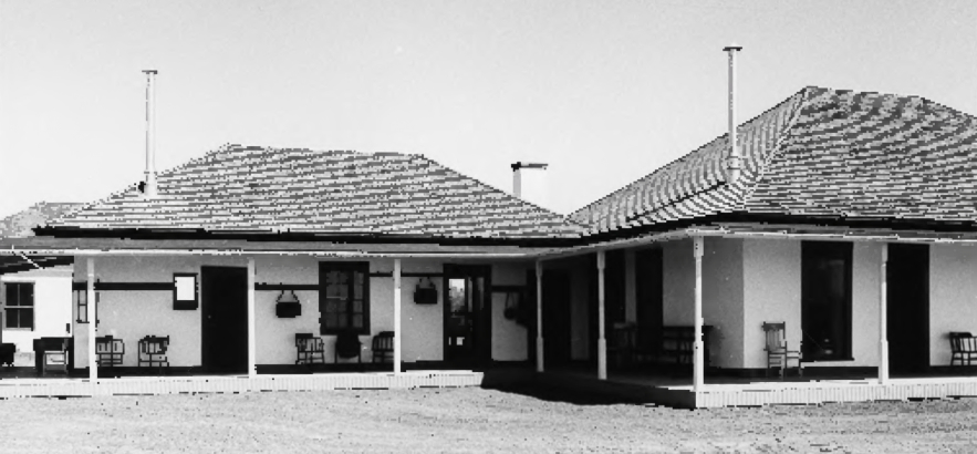 Main ranch house of San Bernardino Ranch — view looking north, with the kitchen wing at left. Located in Cochise County, Arizona.